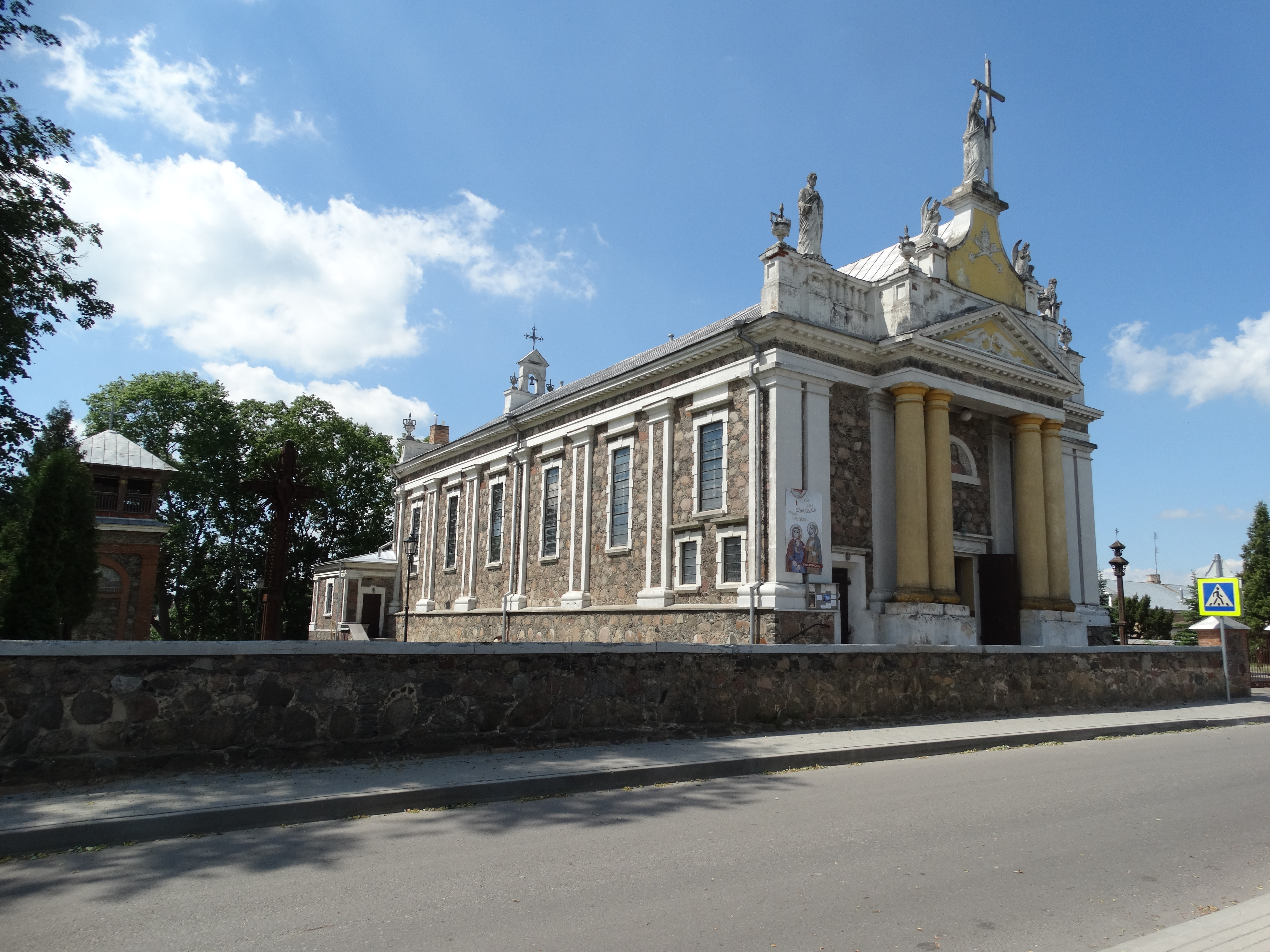 St. Peter and St. Paul's Church, Ukmergė, Lithuania